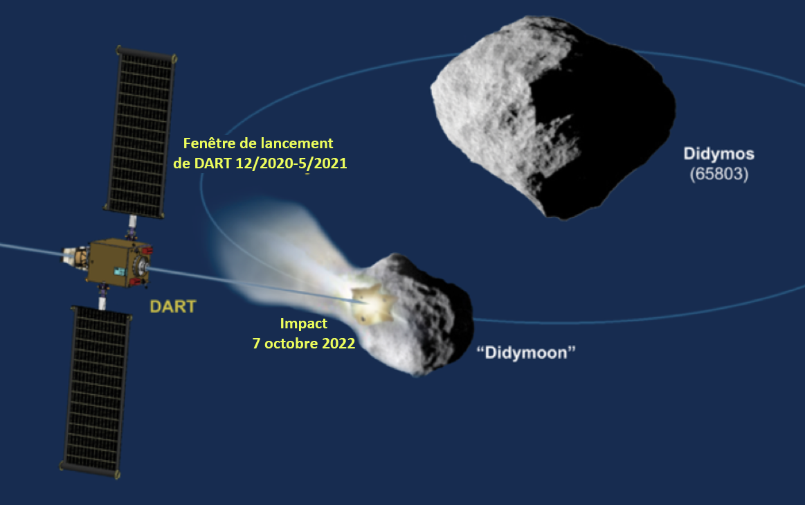 Schematic-of-the-DART-mission-shows-the-impact-on-the-moonlet-of-asteroid-(65803)-Didymos. French labels